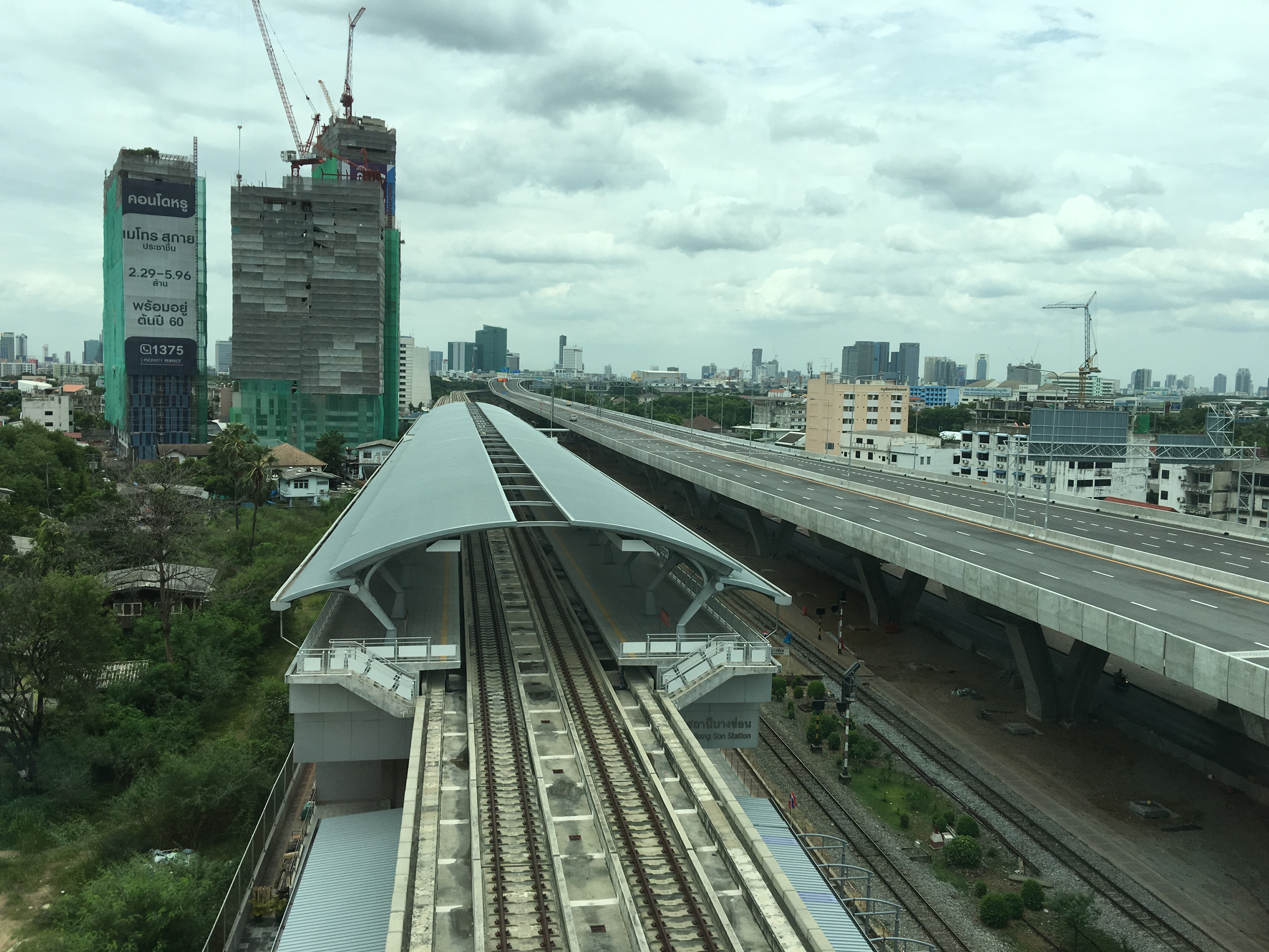 Bang Son Commuter station on SRT Light Red Line